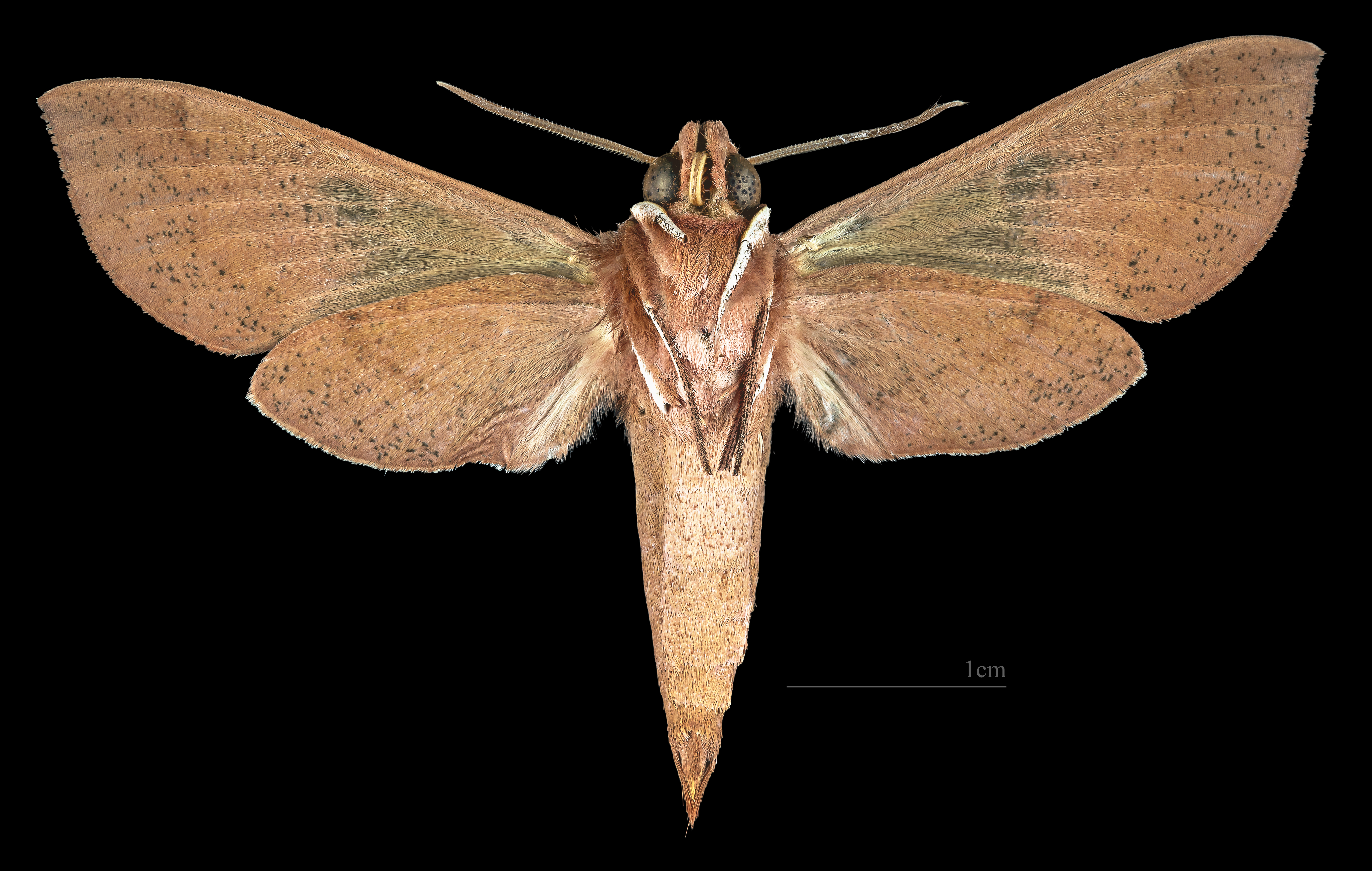 Xylophanes irrorata - △ Ventral side Collection of the Mathematician Laurent Schwartz